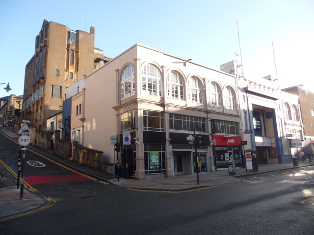 Glasgow: the O2 ABC A pop concert venue (with two unrelated shopfronts to the left of the main entrance) at 300 Sauchiehall Street, whose western façade shows off the steepness of Scott Street.